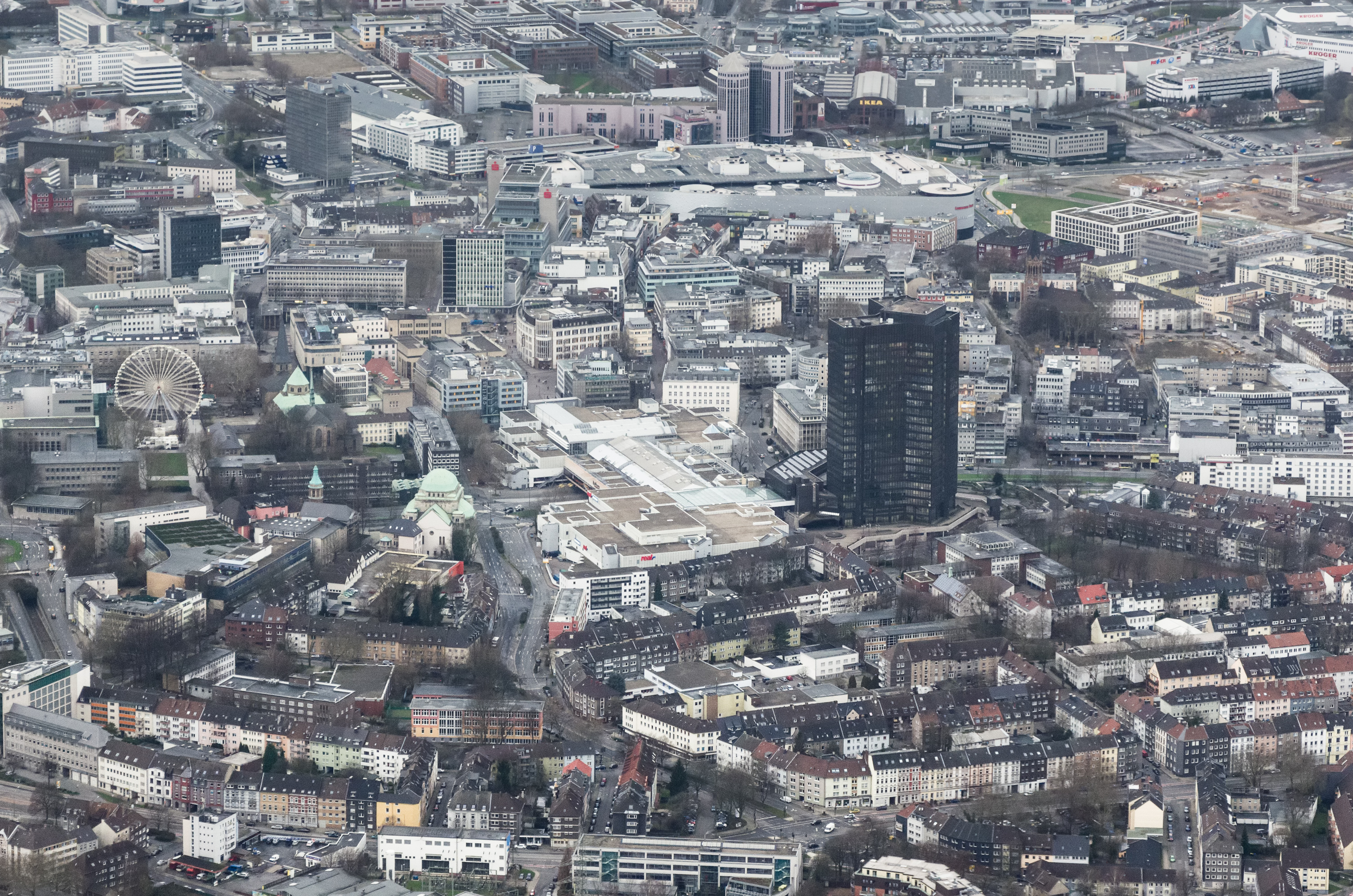 Aerial shot of the city of Essen, direction of view: West